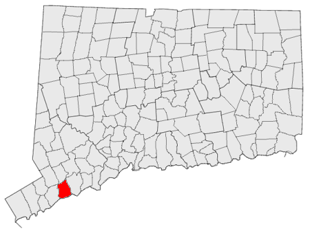 Locator map for Westport, Connecticut